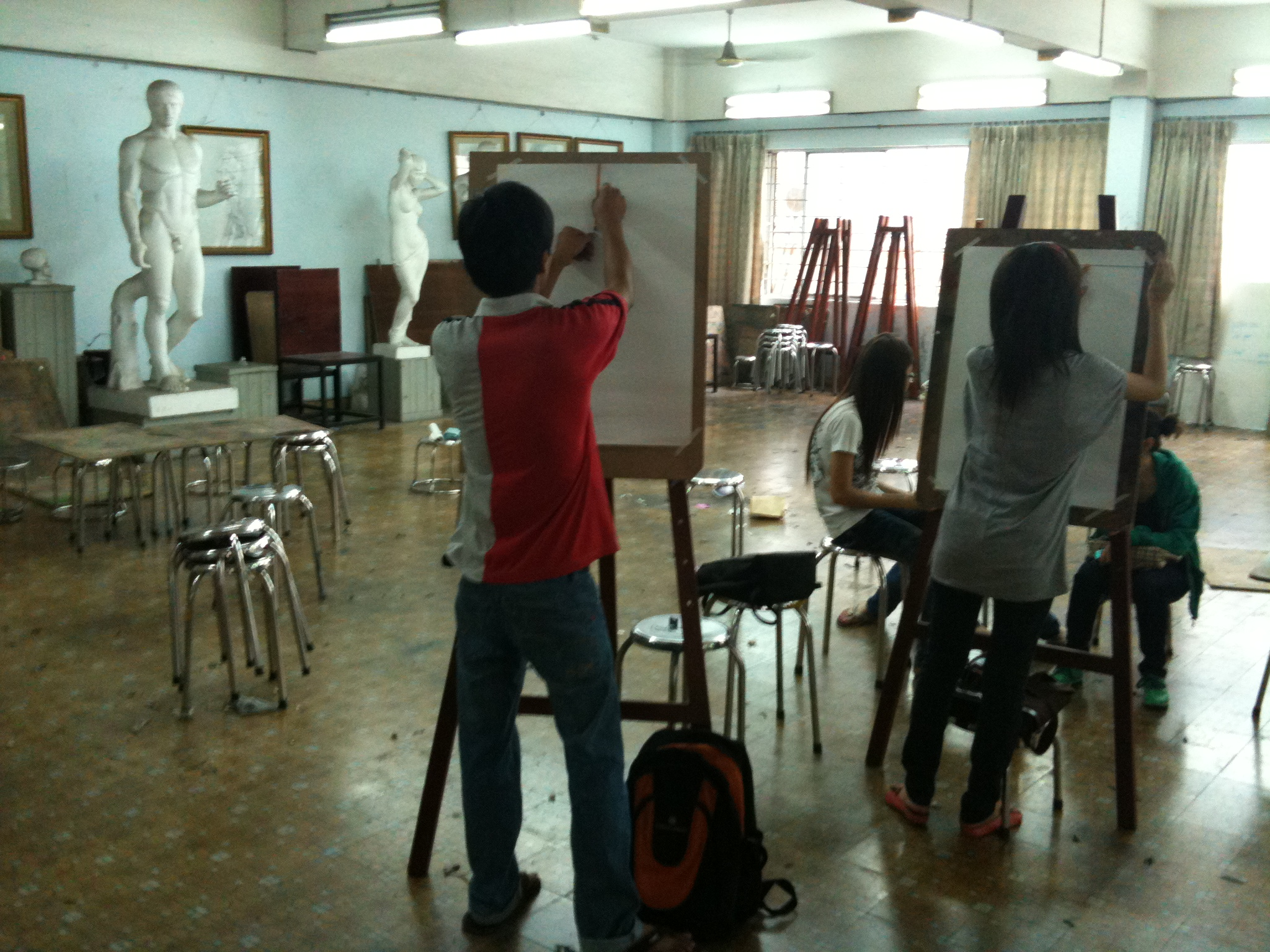 Students participate in a figure drawing class at the University of Architecture, Ho Chi Minh City, Vietnam.